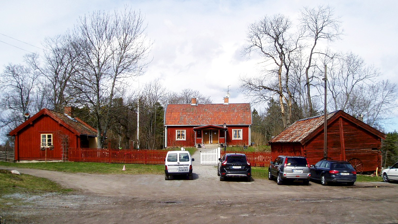 Bögs Farm, Sollentuna municipality, Sweden